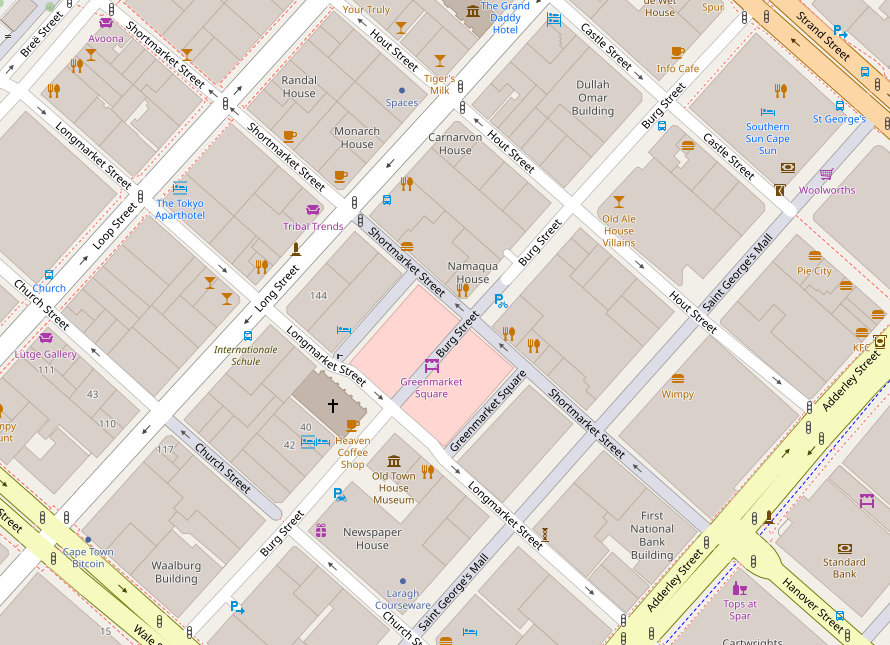 Map of Greenmarket Squre in Cape Town from Open Street Maps.